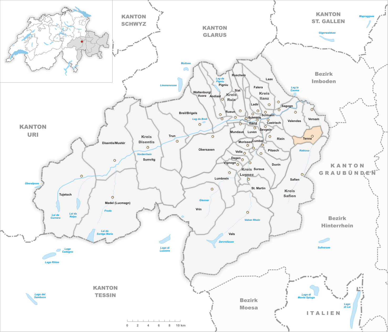 Municipality Tenna